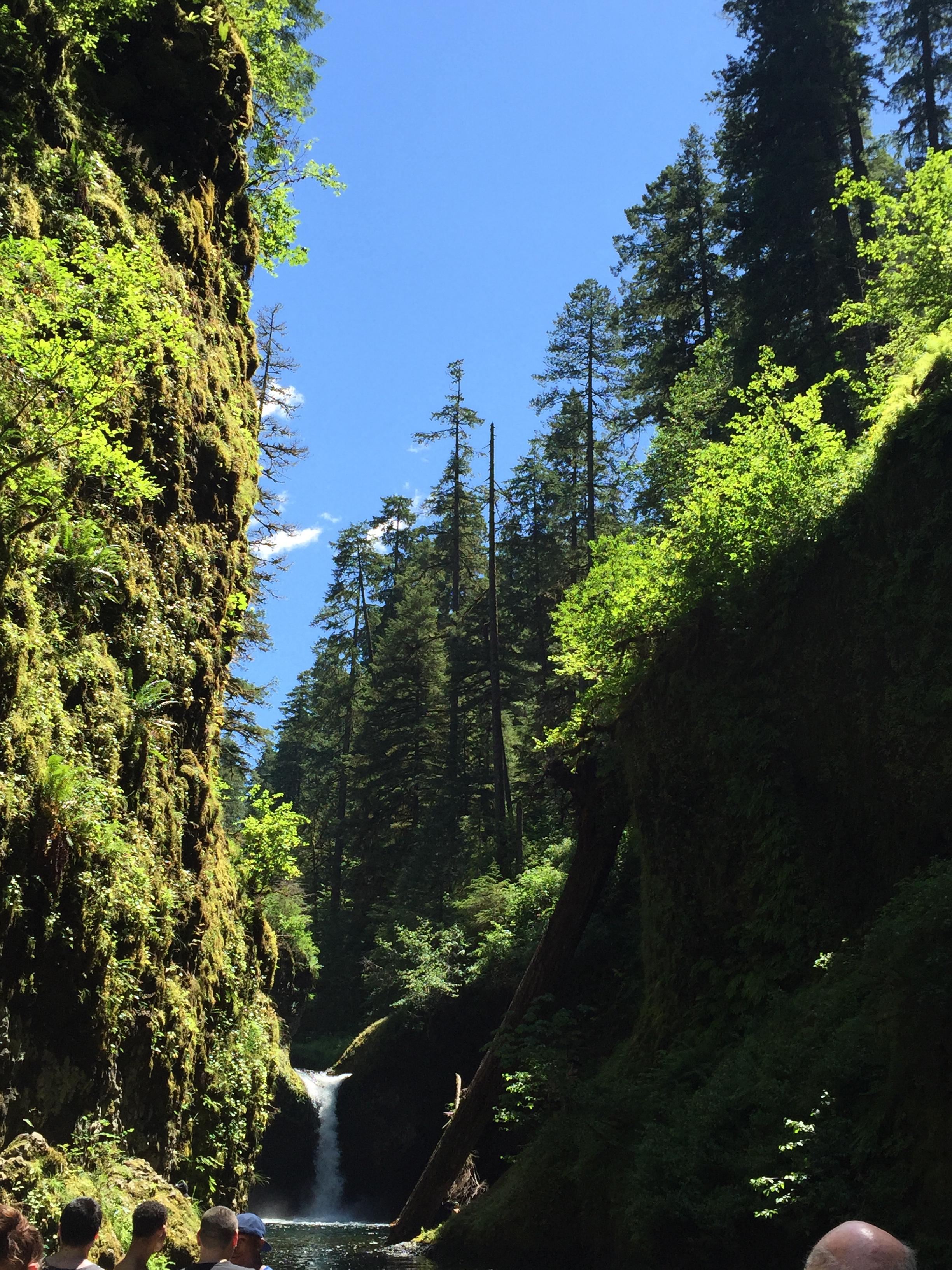 Sunny day in Punchbowl Falls around July